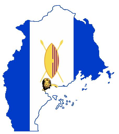 This is the flag map of Buganda, a traditional kingdom of Uganda